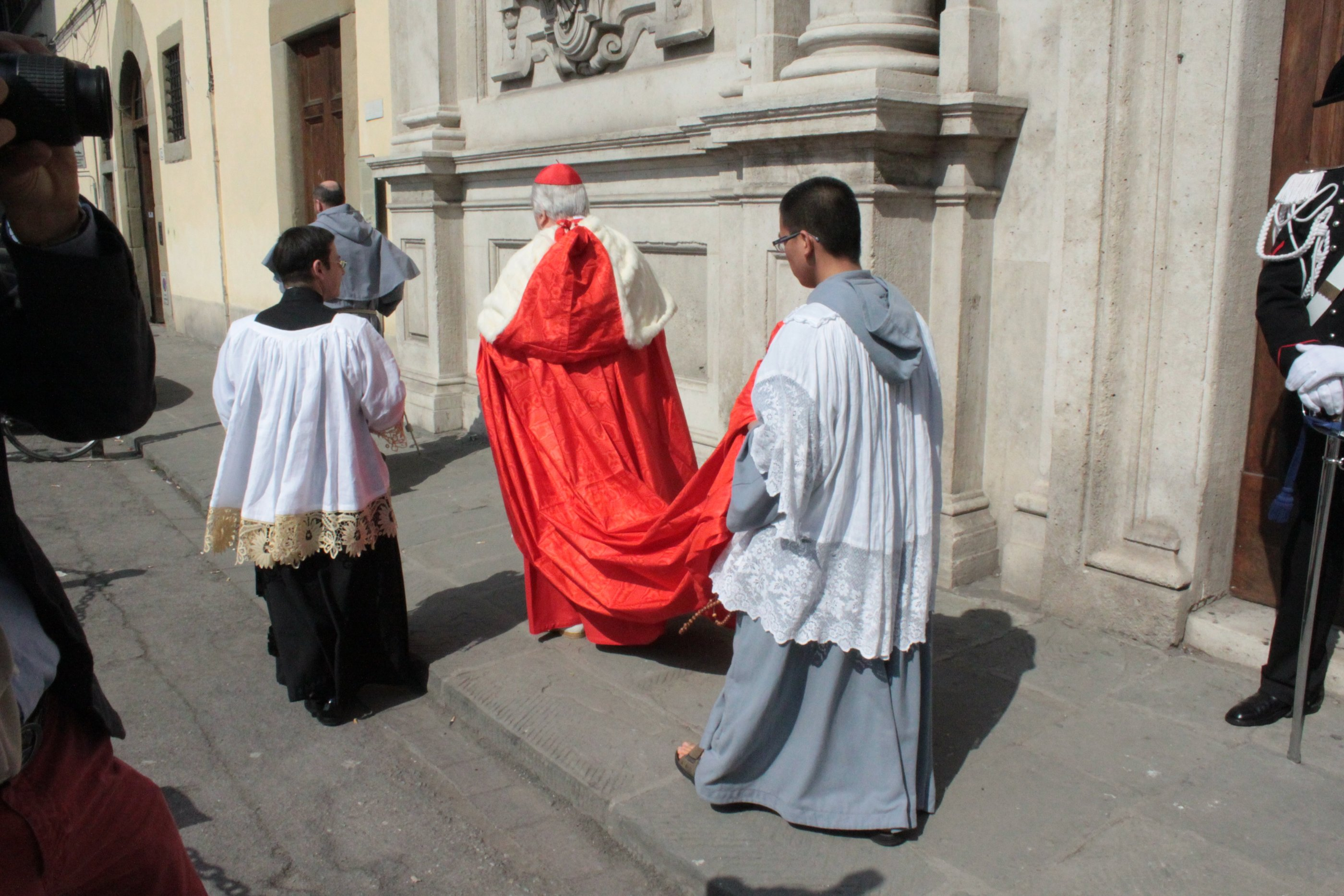 Franc Cardinal Rodé assisted by a Franciscan Friar of the Immaculate in Ognisanti, Florence, Italy